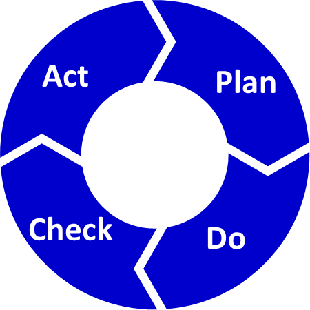 Basic image of a PDCA (plan, do, check act) loop, also known as Shewart Cycle